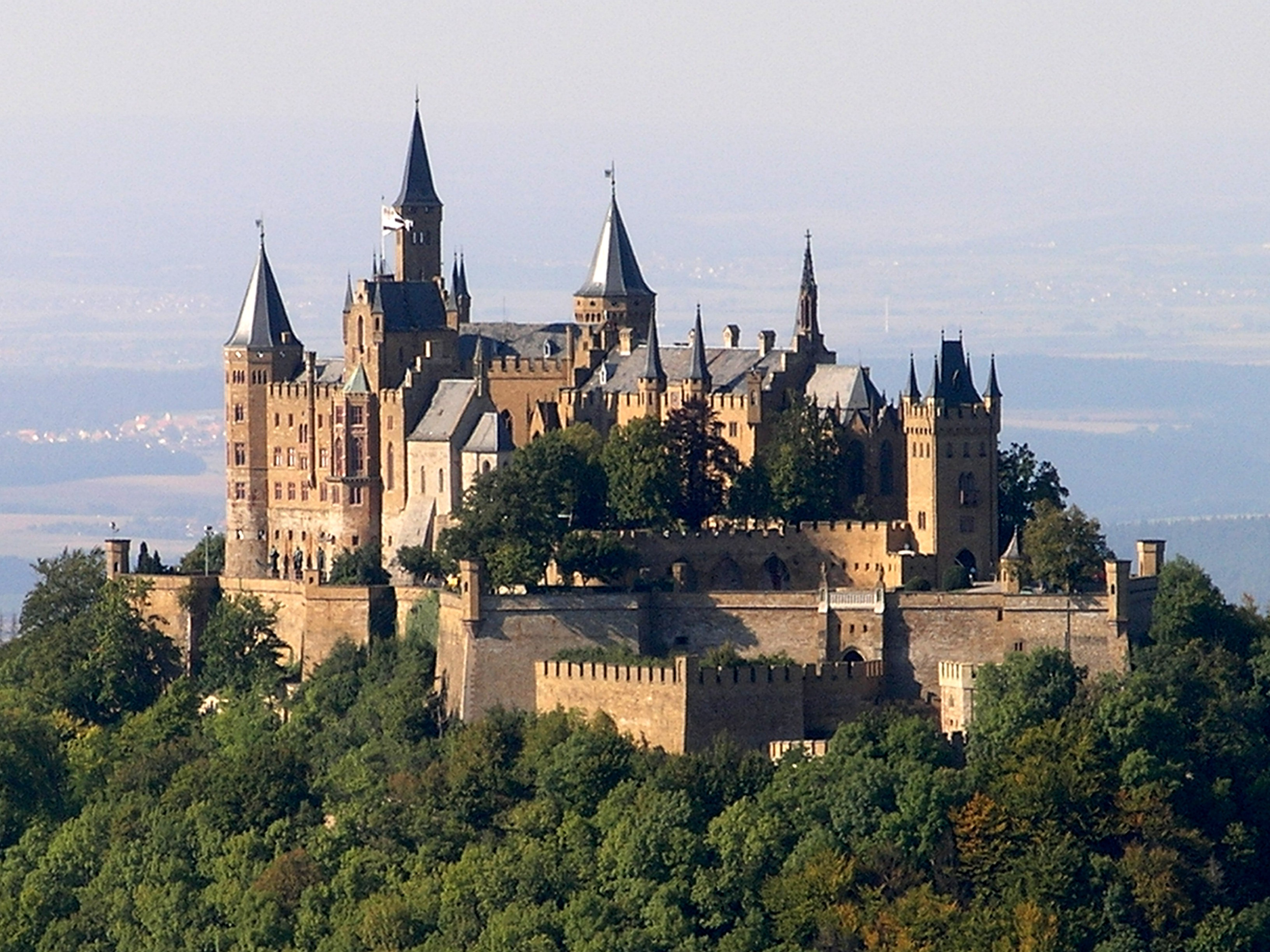 Castle Hohenzollern